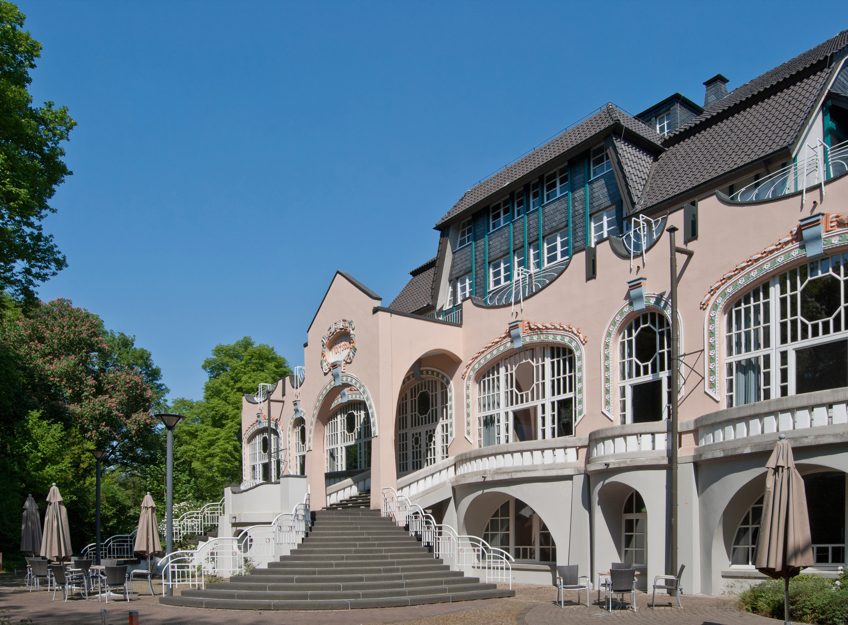 Mülheim an der Ruhr (North Rhine-Westphalia, Germany) – Wolfsburg (Catholic academy) – art nouveau facade of 1906 with a huge flight of stairs This image shows a heritage building in Germany, located in the North Rhine-Westphalian city Mülheim an der Ruhr (no. 400). This photograph was taken with a Nikon D3000